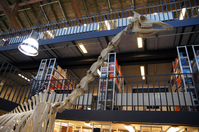 Female Giraffe Skeleton "Rieke" (1938–1957), permanent exhibited in the Veterinary Library, Freie Universität Berlin, Düppel